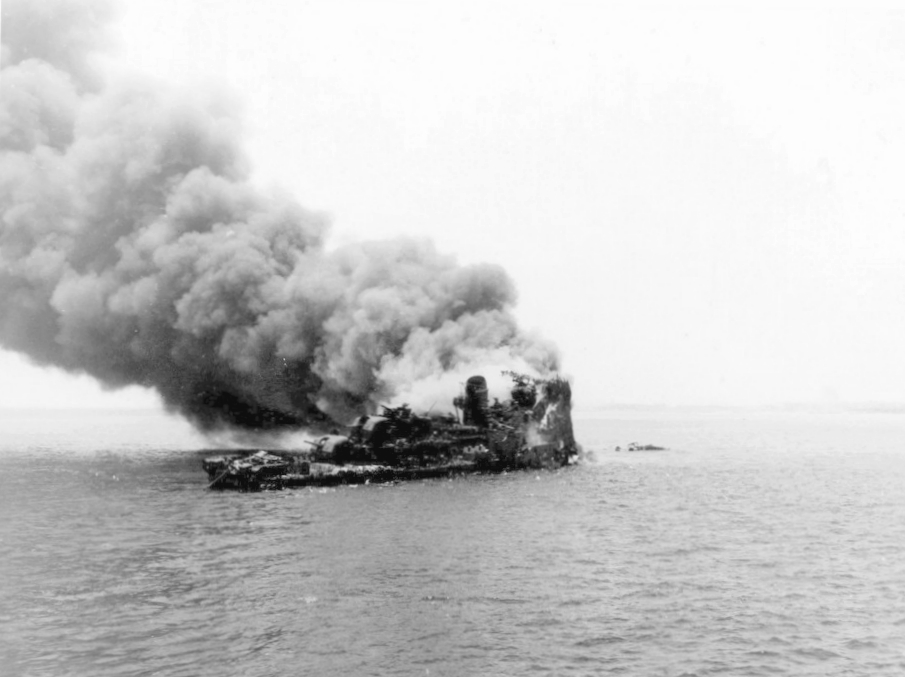 The U.S. Navy destroyer USS Longshaw burning on 18 May 1945. On the morning of 18 May 1945, following a four-day period of fire support, Longshaw, en route to her patrol area, ran aground on a coral reef just south of Naha airfield, Okinawa, at 0719 hrs. At circa 1100 hrs Japanese shore batteries hit Longshaw´s forward magazine, which exploded. About an hour later, the landing craft LCI(L)-356 came alongside to remove the crew. 86 crewmen were killed, 95 were wounded. Later in the afternoon, Longshaw, battered beyond salvaging, was destroyed by gunfire and torpedoes from U.S. ships.